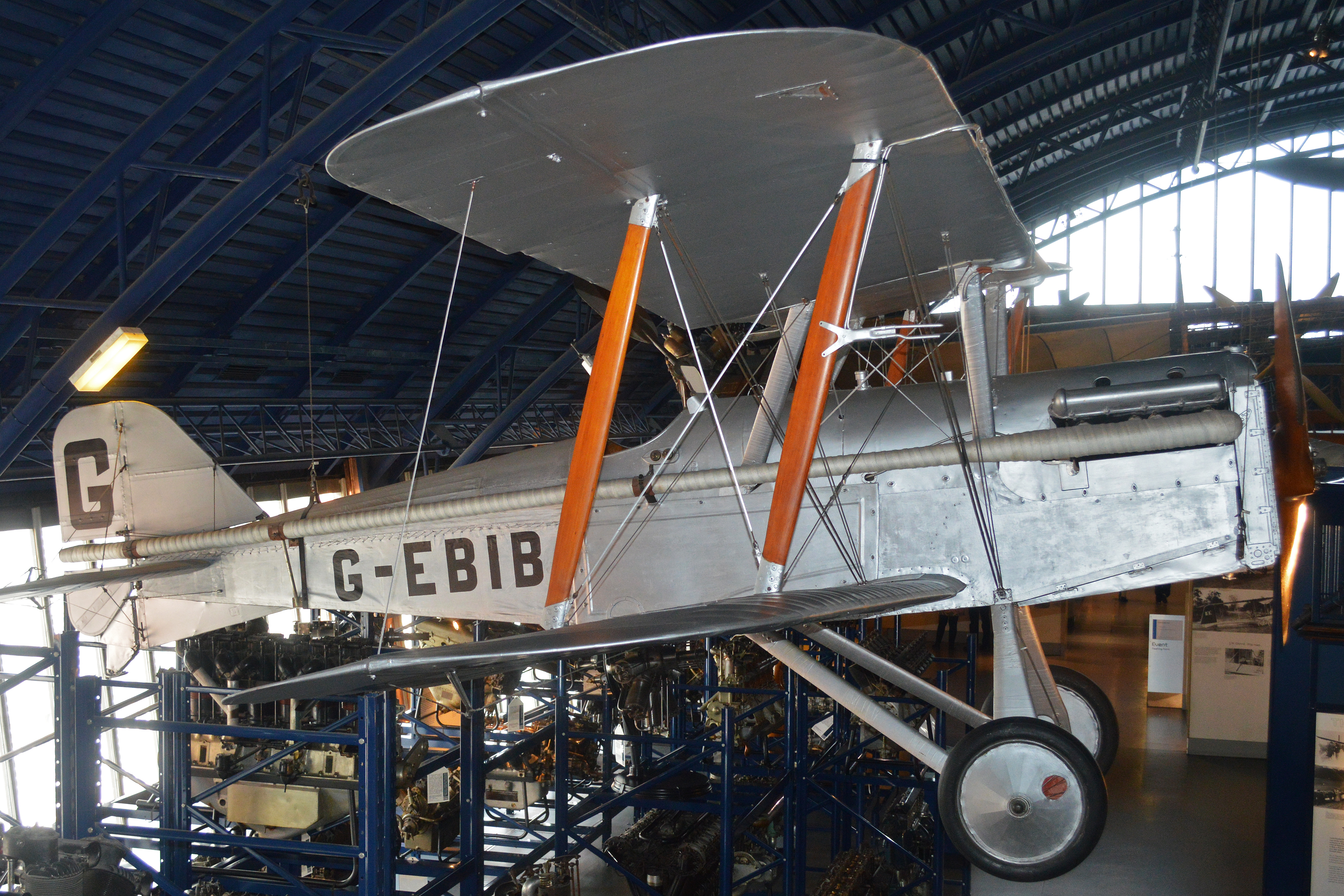 c/n 687. Built 1917. Saw Royal Flying Corps service as ‘F937’. Later sold privately, it was registered as ‘G-EBIB’ and modified for skywriting. It then flew with the Savage Skywriting Company, alongside ‘G-EBIA’ (previously ‘F943’) which remains airworthy with the Shuttleworth Collection, and ‘G-EBIC’ (previously ‘F938’) now on display in the RAF Museum at Hendon. ‘G-EBIB’ joined the Science Museum in 1939 and is now on display in the ‘Flight’ Hall, restored to its Skywriting colours. Science Museum, South Kensington, London. 16-6-2015